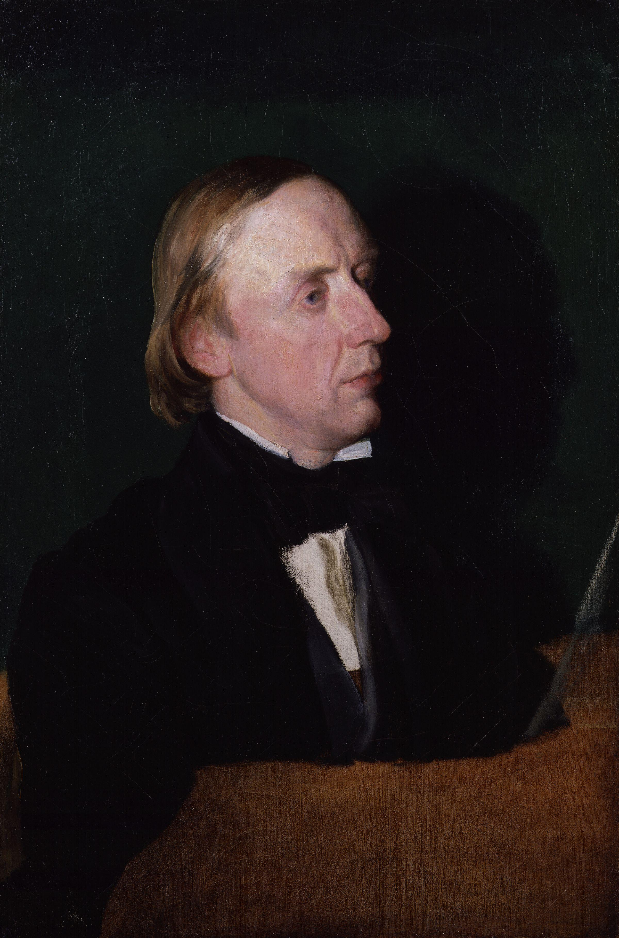 Sir Charles Hallé (née Carl Halle), by George Frederic Watts (died 1904), given to the National Portrait Gallery, London in 1895. All images in this batch have been confirmed as author died before 1939 according to the official death date listed by the NPG.